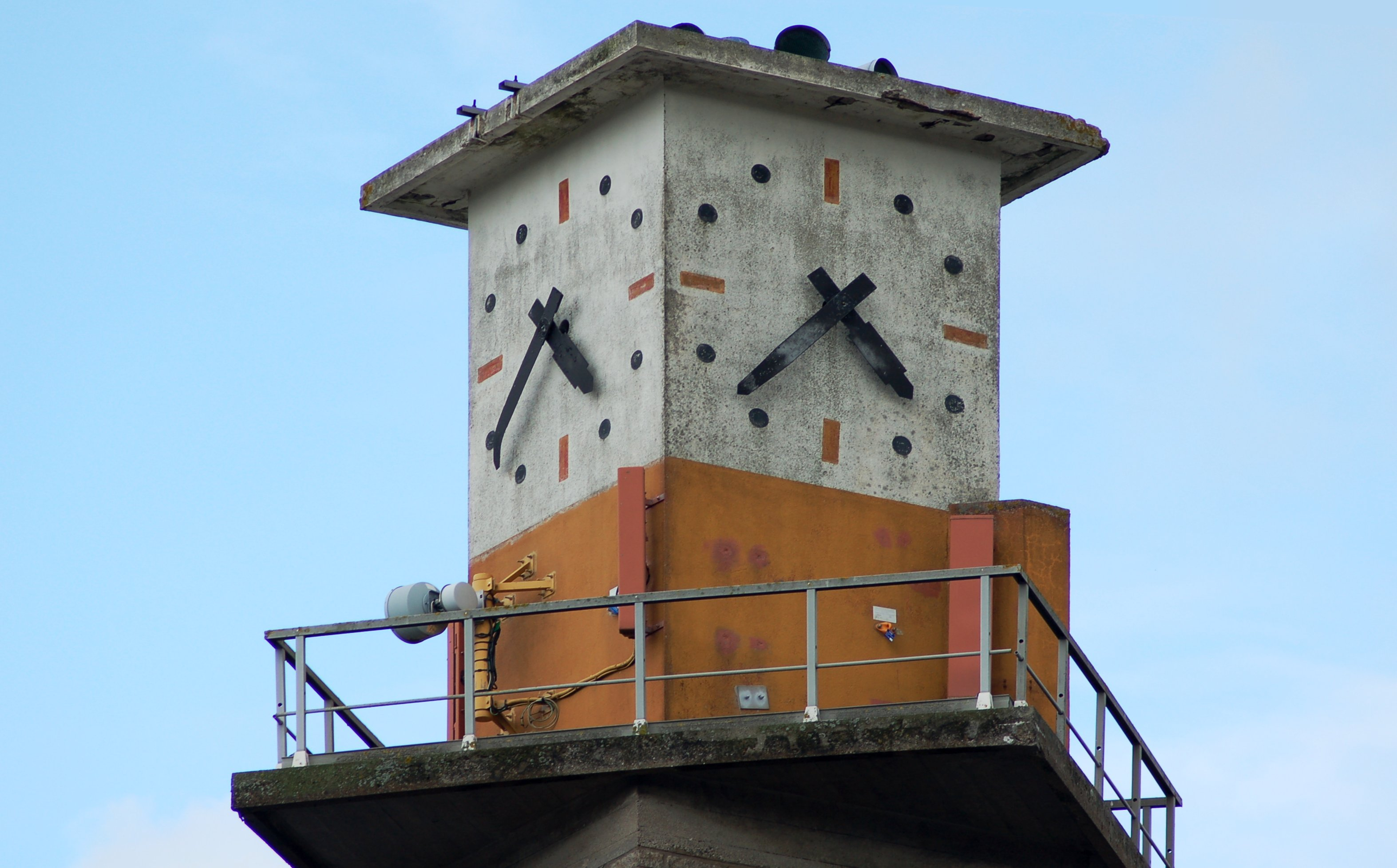 le beffroi de la gare de Dinan the clock tower of Dinan's railway station (Britanny, France) built : 1932 Architect : Georges-Robert Lefort 1875-1954